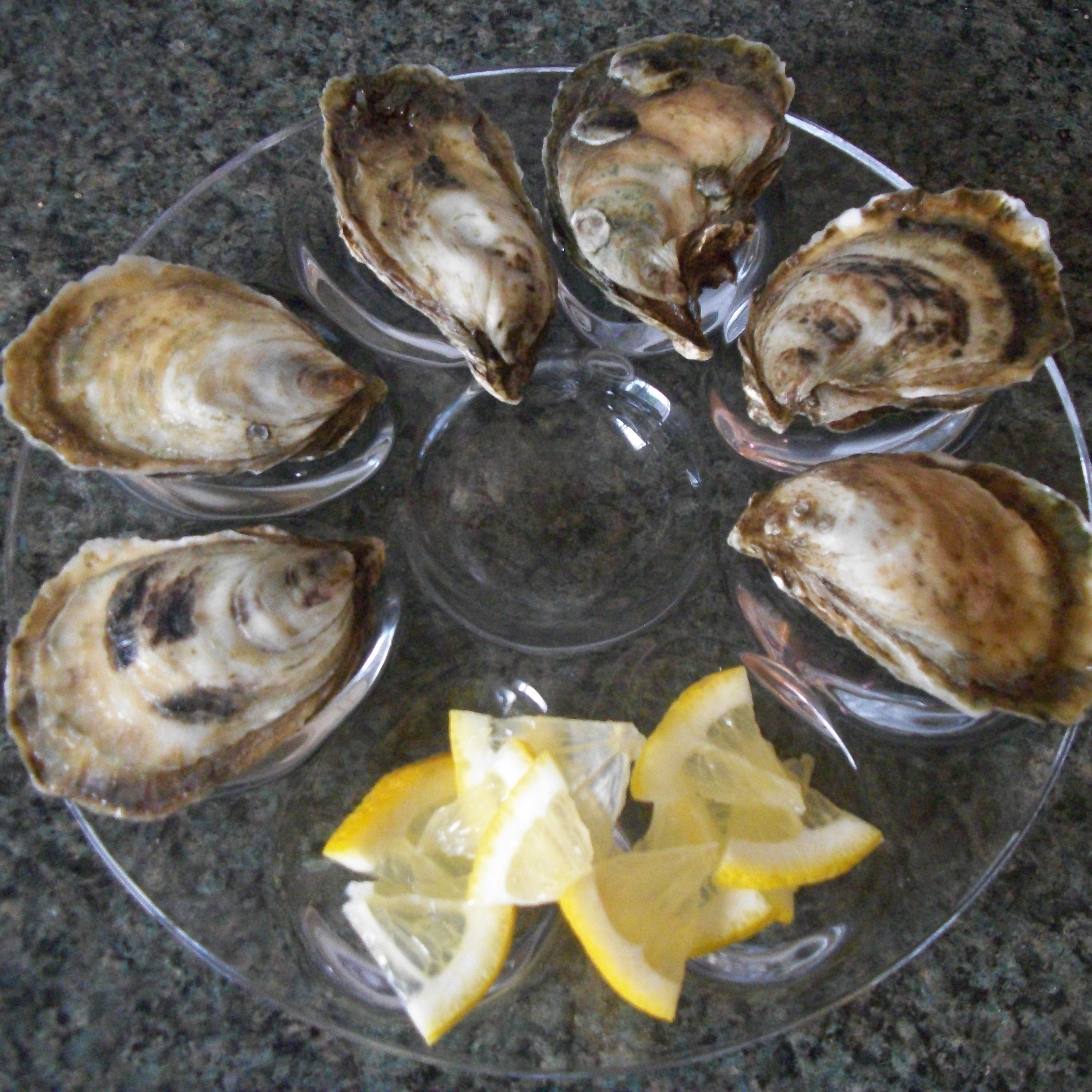 Plate of BeauSoleil oysters ( Crassostrea Virginica) from the Gulf of St. Lawrence near Neguac, northern New Brunswick, Canada